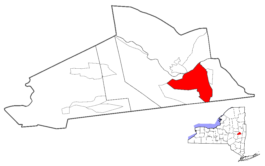 Map of Schenectady County highlighting Schenectady